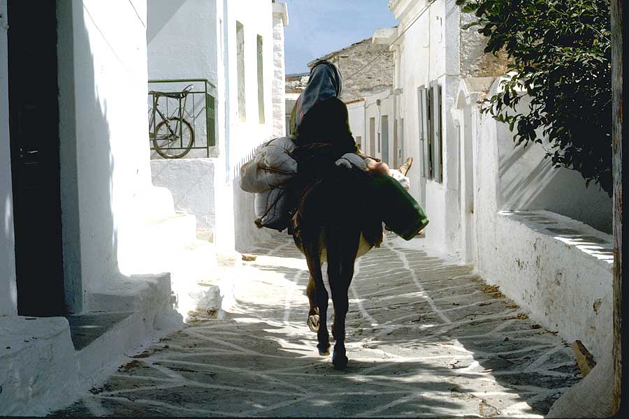 Driopis stret.